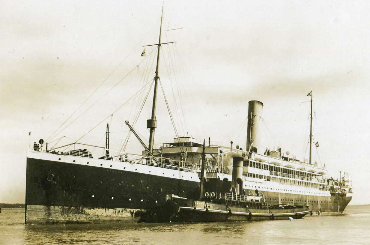 Passenger steamship Aragon, built in Belfast in 1905 by Harland & Wolff for the Royal Mail Steam Packet Co. She was requisitioned in 1915, converted into a troop ship, and sunk by a U-boat off Alexandria, Egypt in 1917